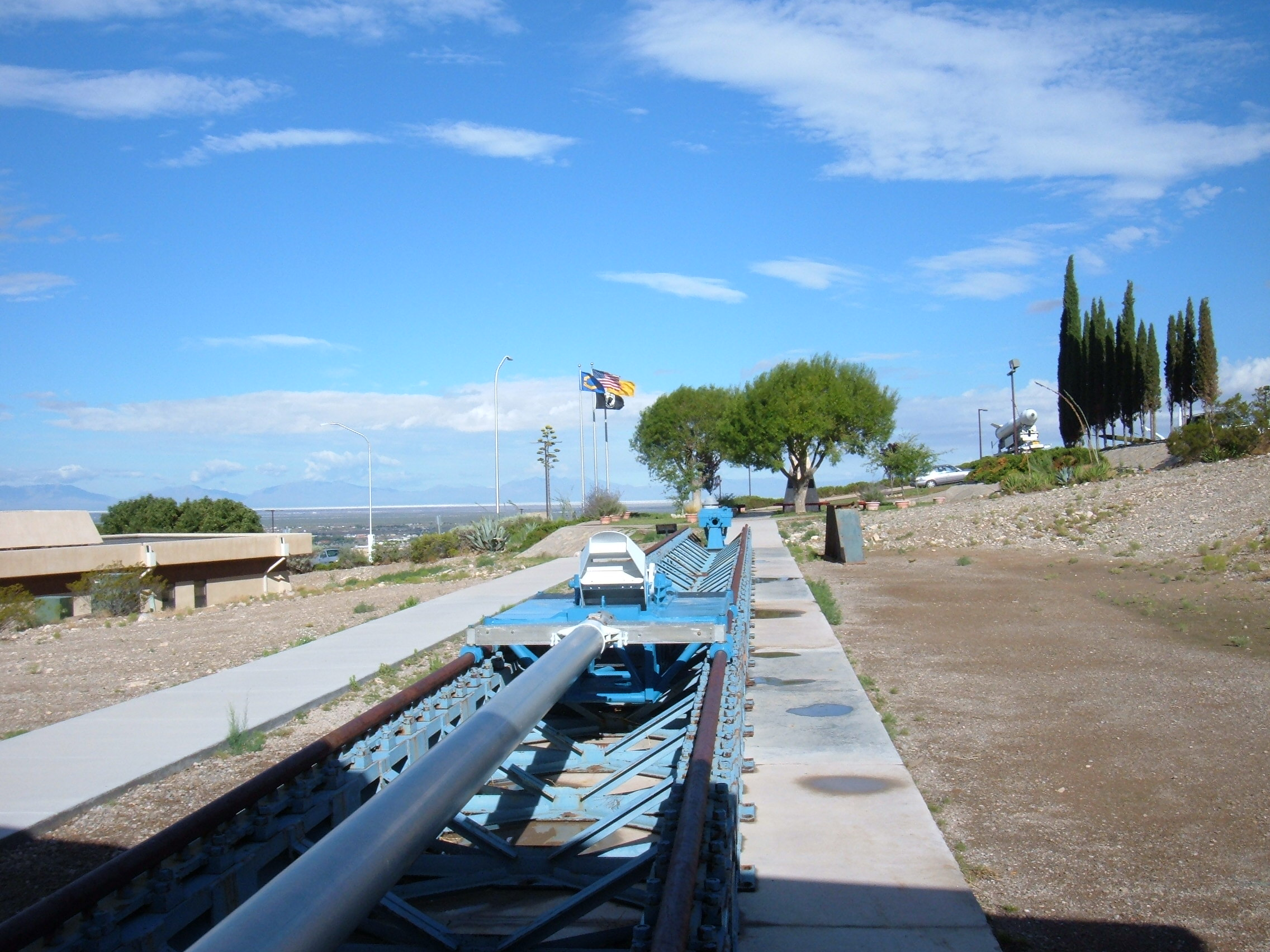 Daisy Track, a test track for an air-powered rocket sled used at Holloman Air Force Base. Now located at the New Mexico Museum of Space History at Alamogordo, New Mexico.